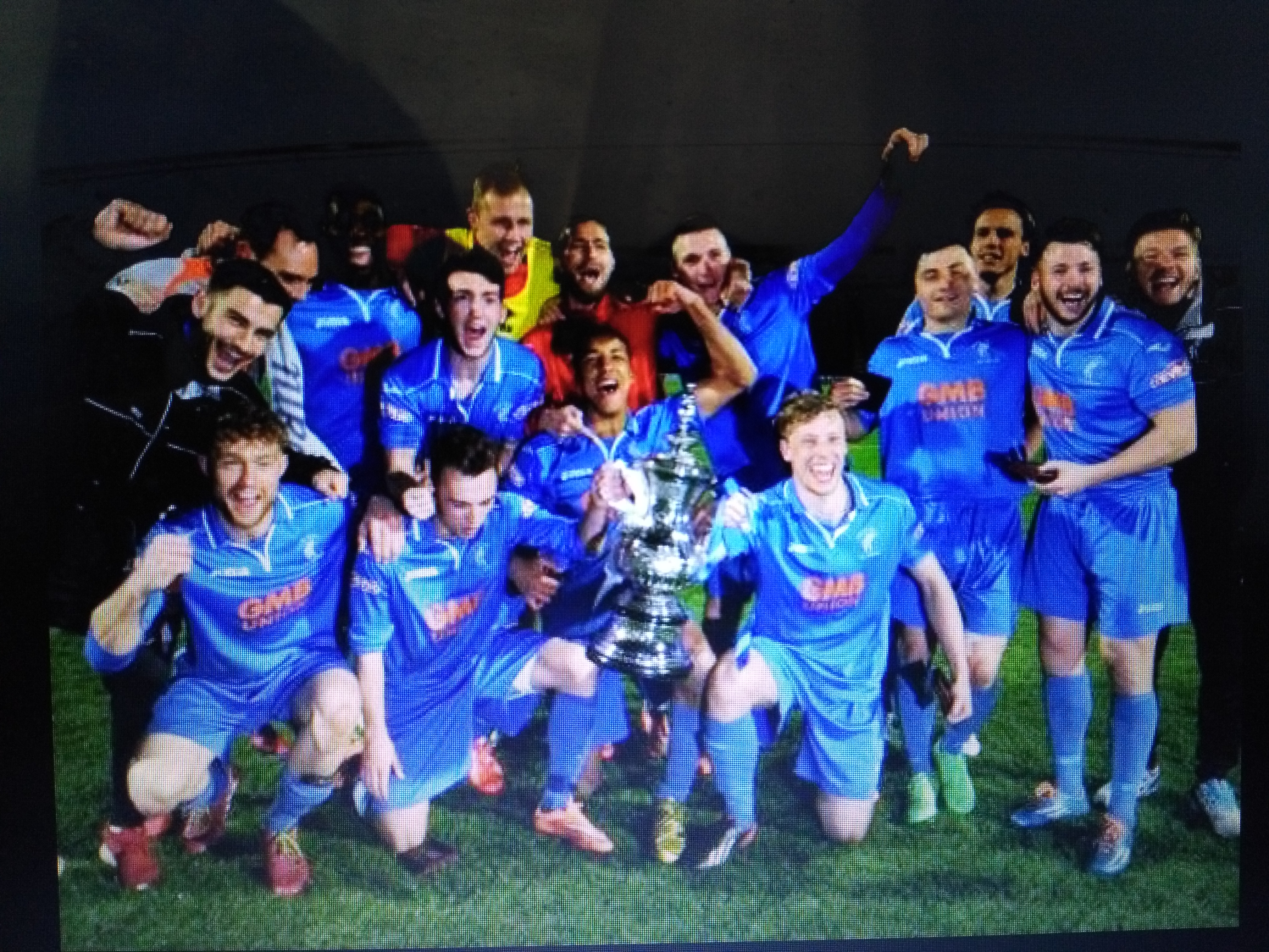 Photo taken the last time Matlock Town won the Derbyshire Senior Cup in 2015. They beat Gresley FC 7-0 at Chesterfields' Proact Stadium. Holding the trophy is Adam Yates and Niall Mcmanus.